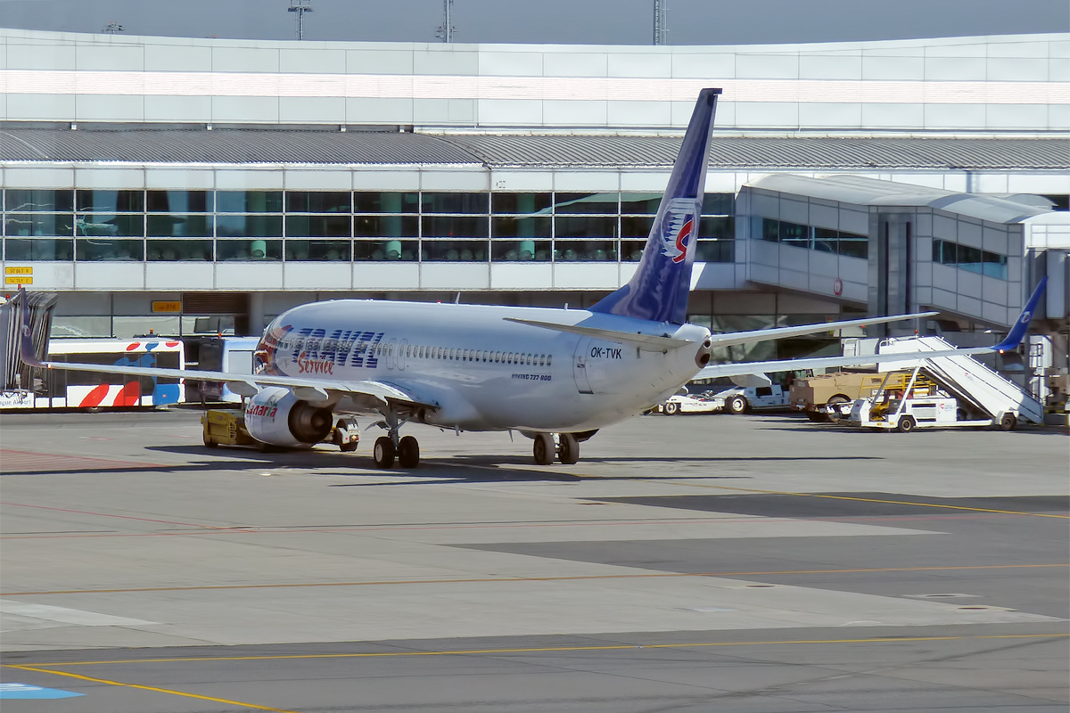 Travel Service, OK-TVK, Boeing 737-86N